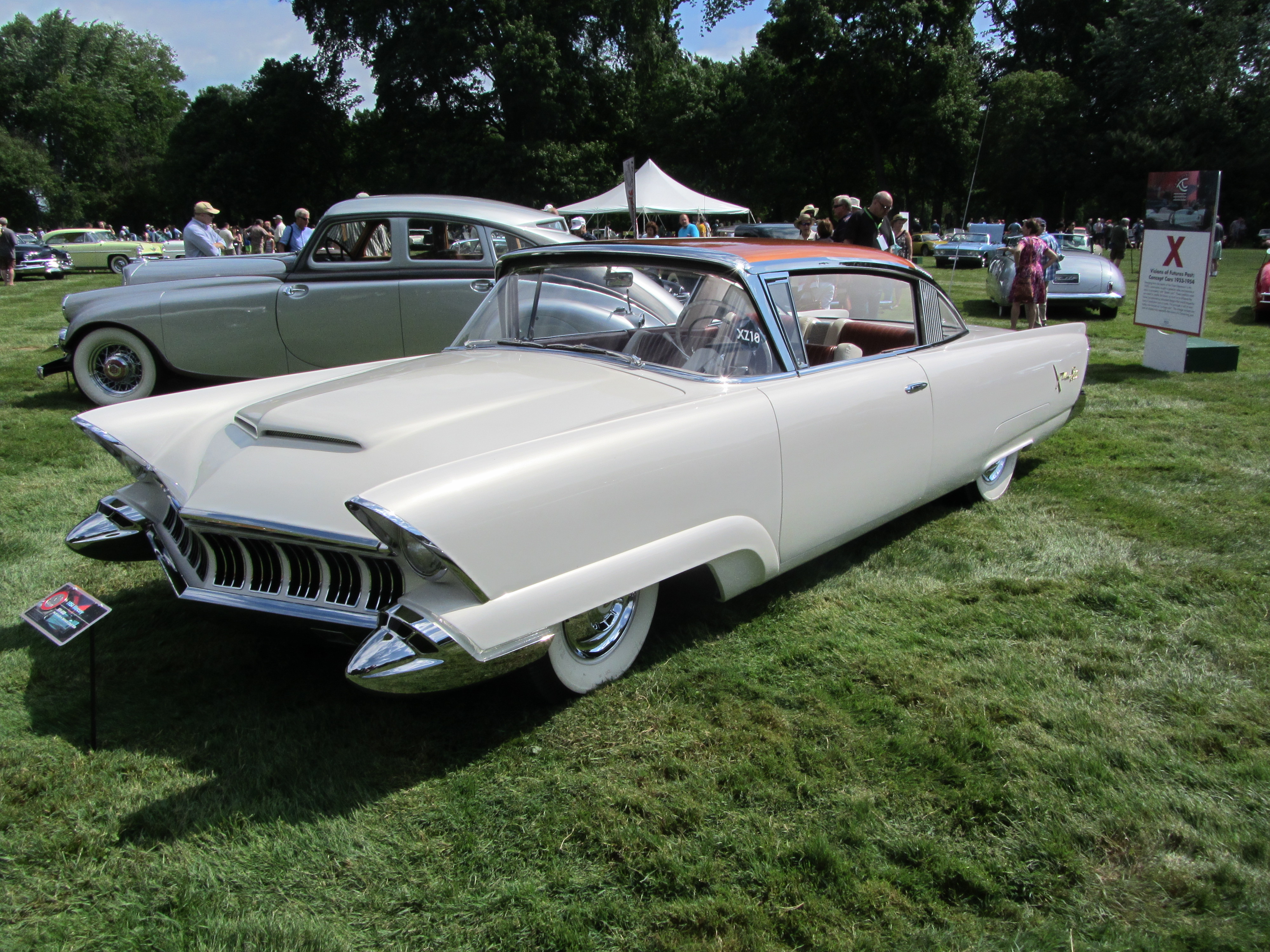 "The 1954 Mercury XM-800 was conceived by Mercury's Pre Production Studio, Headed by John Najjar with assistance from Elwood Engle, and built by Creative Industries in Detroit. First shown to the public at the 1954 Detroit Auto Show, the futuristic XM-800 was promoted at various shows that year, also appearing in the 1954 movie, "Woman's World", and as a small model found in boxes of Post Grape Nuts Flakes. It was donated to the University of Michigan in 1957, later auctioned off to a private citizen, ultimately landing in the hands of famous concept car collector Joe Bortz in 1987. Under Bortz's ownership it became a drivable car, then sold in 2008 to current owner Richard H. Driehaus, who had it restored to its original glory" From the official program to the Eyes on Design.